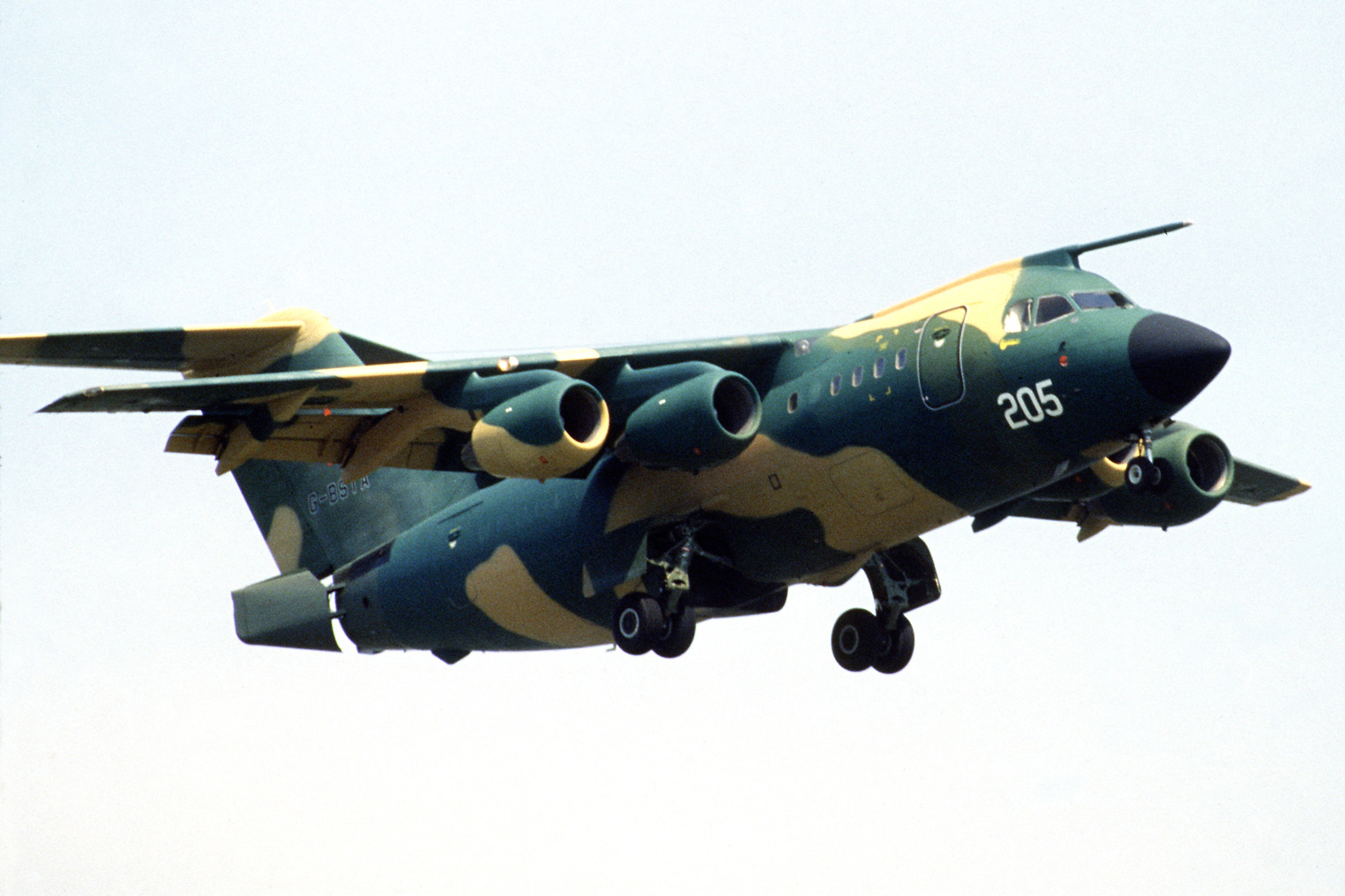 A British BAe-146-STA flies at the 38th Paris International Air and Space Show at Le Bourget Airfield.